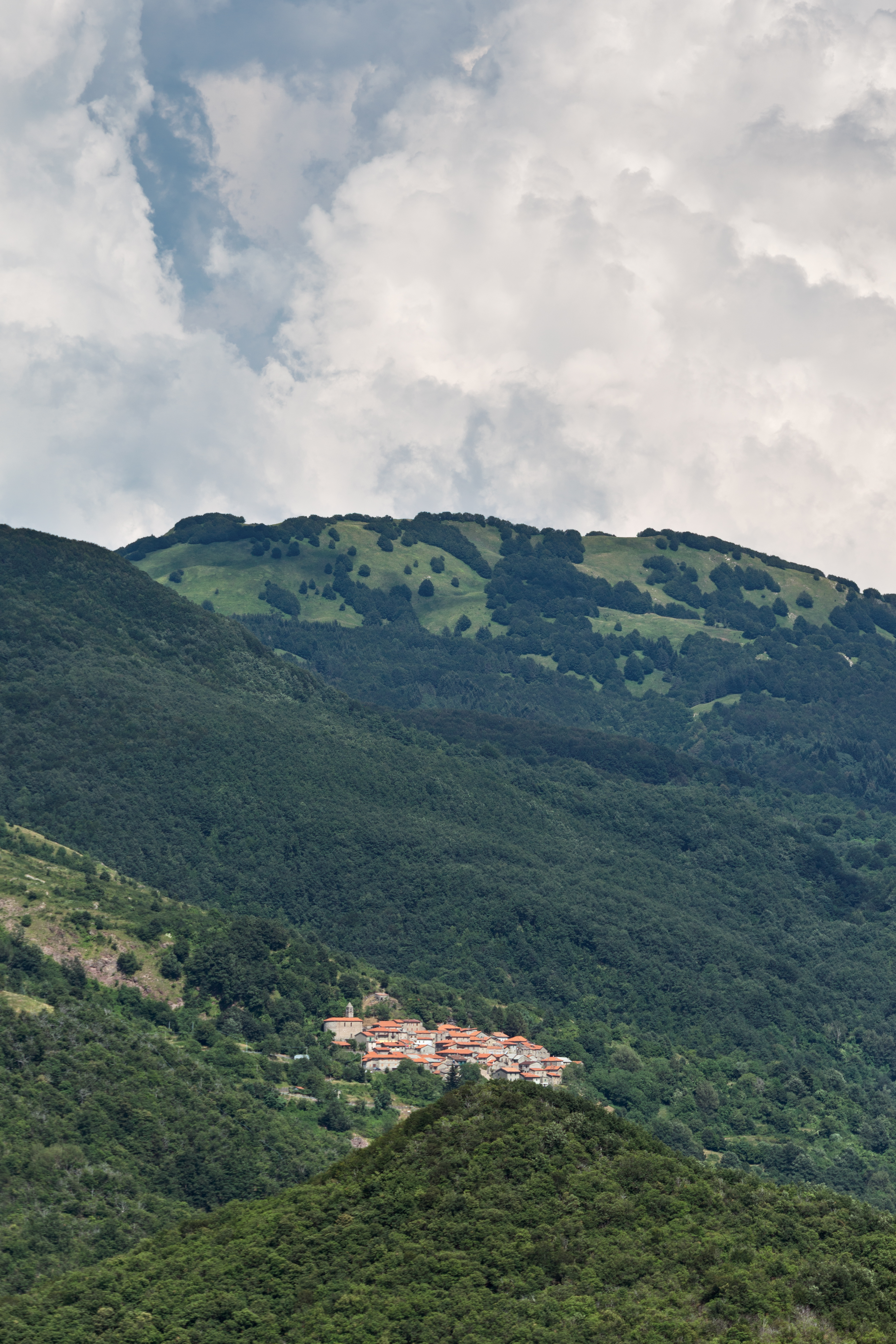 Camporaghena seen from Groppo San Pietro, Comano, Massa-Carrara, Italy